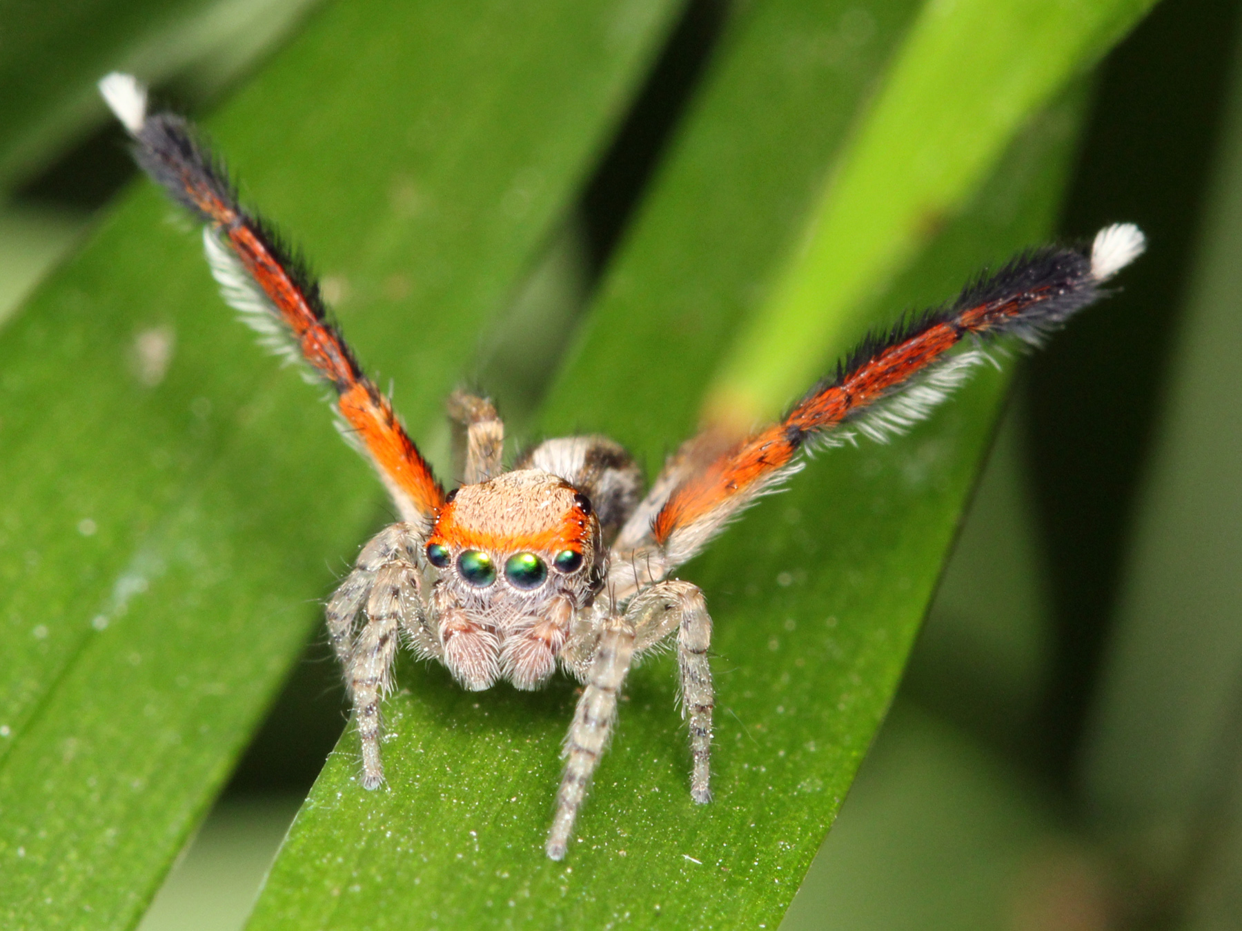 Adult male Saitis barbipes jumping spider signaling with its third legs